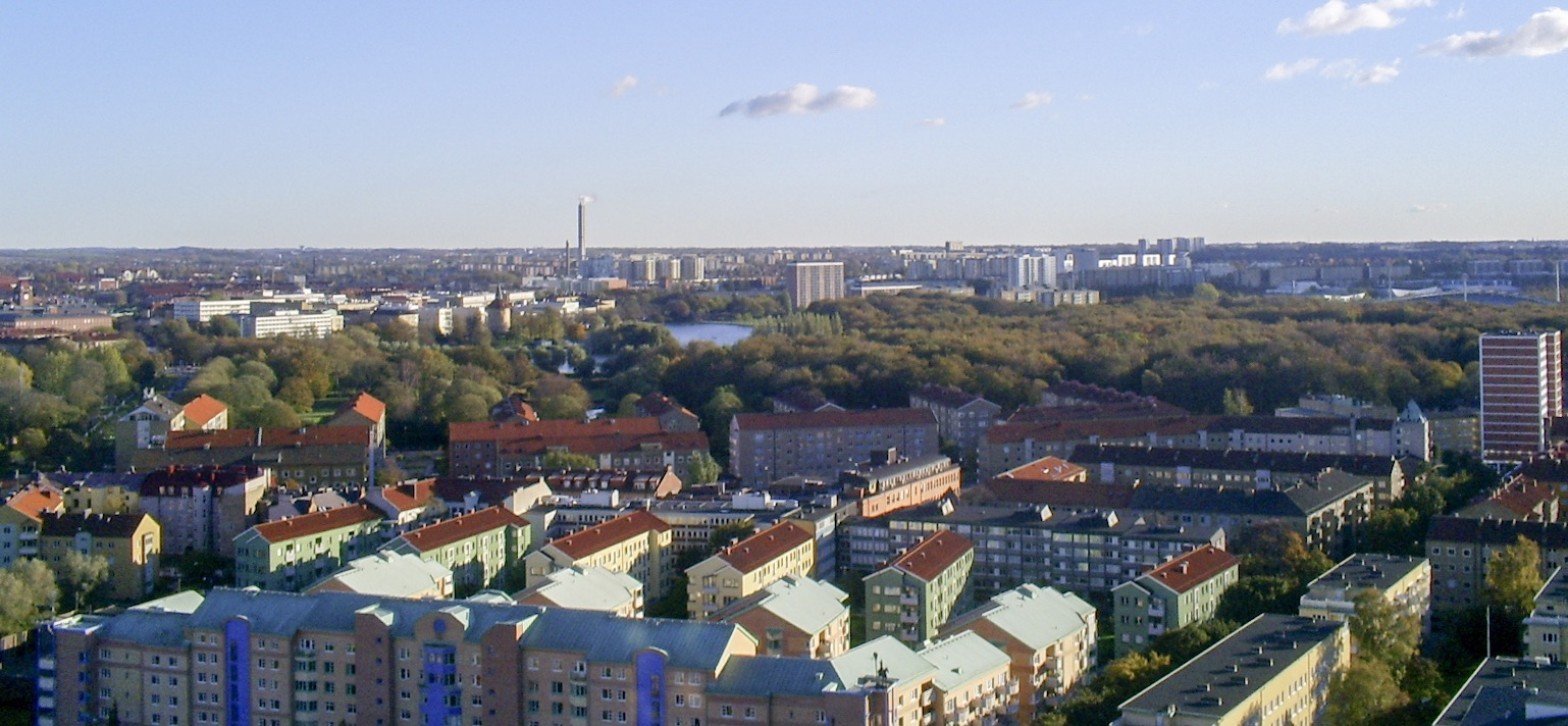 A view over the city of Malmö in Sweden from the skyscraper Kronprinsen at 80 metres above the ground. View towards the south.